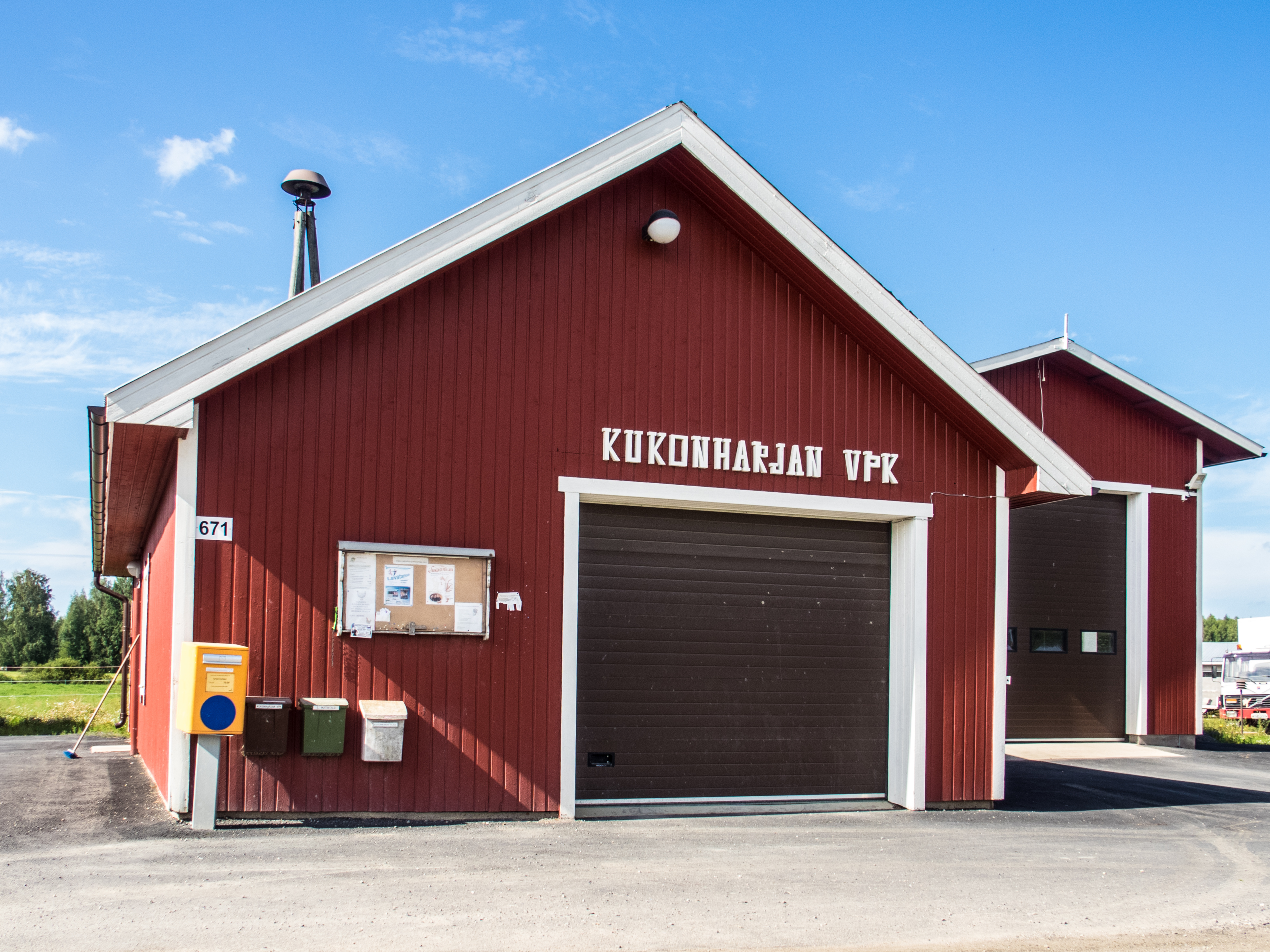 Voluntary fire brigade in the village Kukonharja, Vampula, Finland.